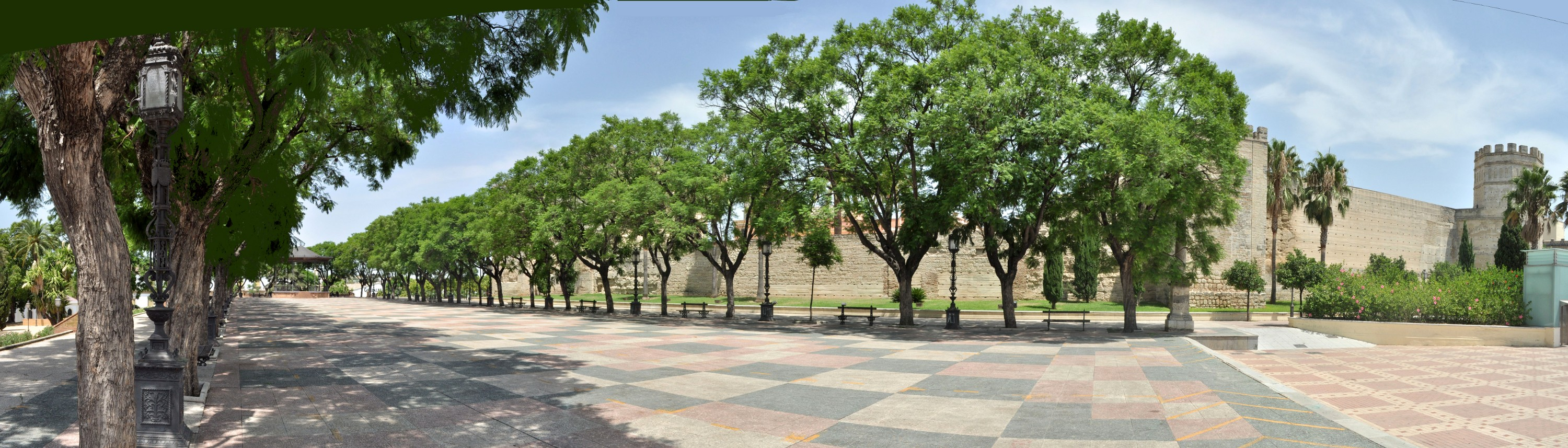 Old Square, Main Esplanade, Jerez